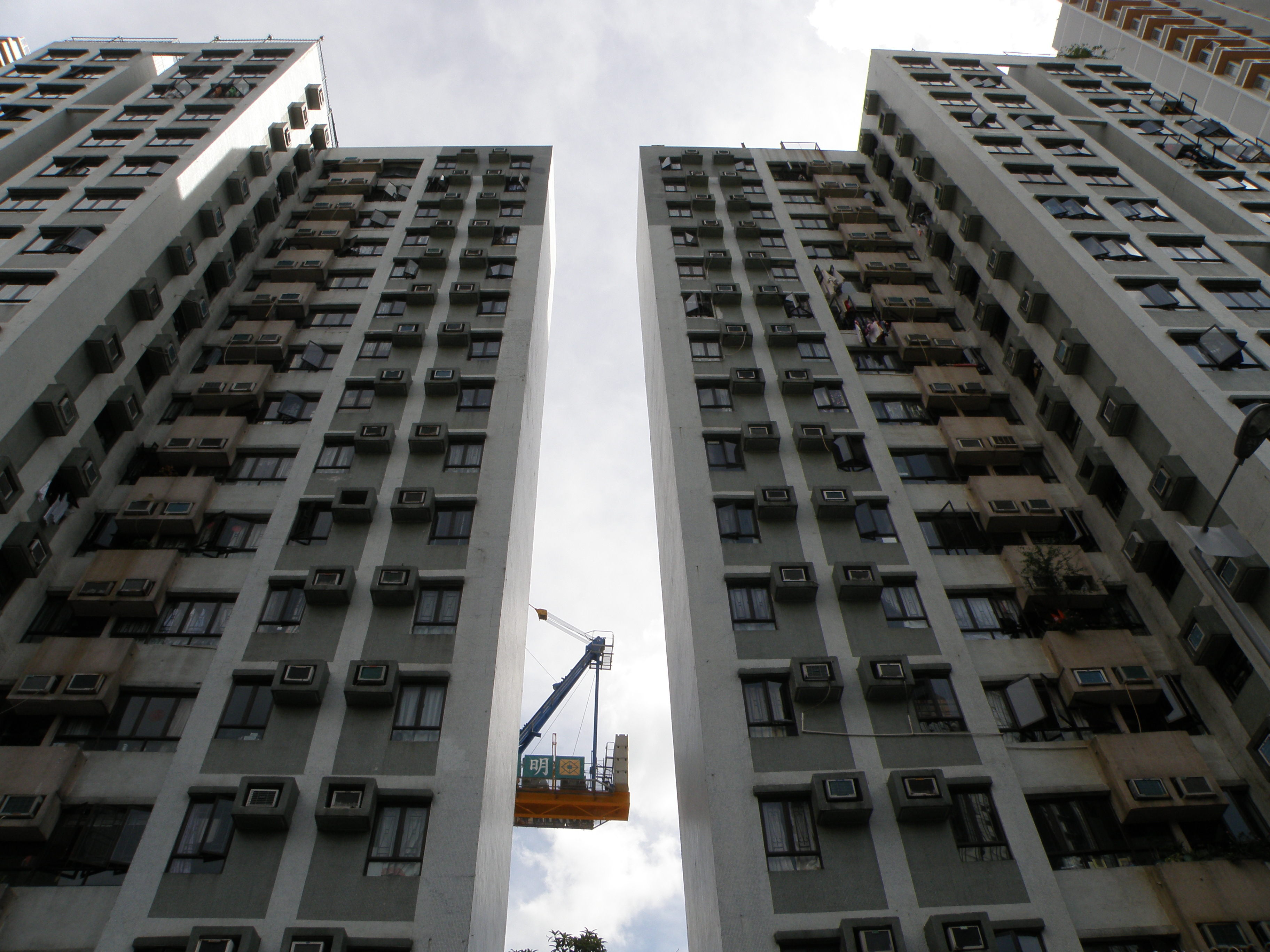 Hung Hom Gardens in Hung Hom, Hong Kong.